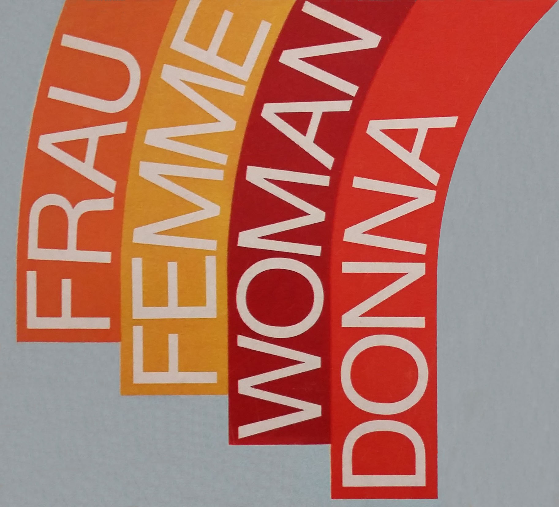 Logo of the Swiss women's magazine die Frau